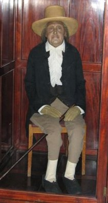 Jeremy Bentham's "Auto-Icon" at University College London.